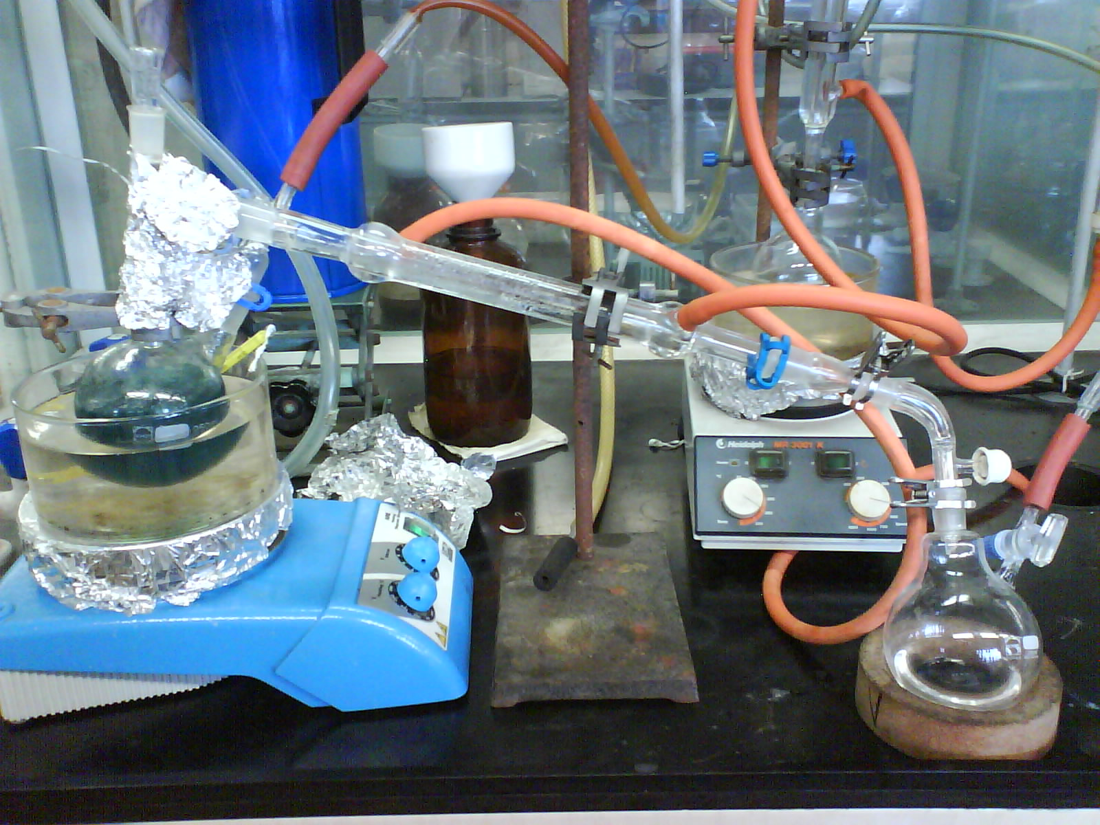 Distillation of dry and oxygen-free toluene from sodium-benzophenone desiccant. Glassware are under a slight positive nitrogen pressure from the side-arm of the receiving Schlenk flask to prevent oxygen contamination. Note that this is not a closed system - the nitrogen supply is connected to an oil bubbler (not in picture) to prevent overpressure. Photo taken on 6 Sep 2006. Keywords: distillation, toluene, sodium, benzophenone, desiccant Gallery A bottle of benzophenone by Lancaster. and benzophenone to produce dry, oxygen-free toluene. The mixture is still not blue yet indicating that the reaction is not complete. The intense blue coloration due to the benzophenone ketyl radical shows that the toluene is considered free of air and moisture. After the toluene has been thoroughly dried by the sodium and benzophenone, it is distilled at atmospheric pressure under a slight positive pressure of nitrogen to prevent contamination by air into the receiving Schlenk flask.